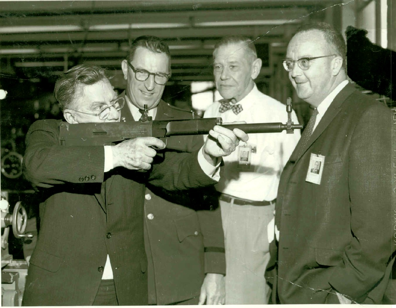 This April 17, 1962 photo shows John C. Garand with the Springfield Armory SPIW Concept #1 prototype. The Concept #1 design can be identified by the hinged lower receiver, a feature not used on the Concept #2 design. Next to Garand are Lt. Col. Charles P. Bartow ( Springfield Armory's Executive Officer), Otto H. von Lossnitzer (Chief of the Project Control Office), and Herman F. Hawthorne (Chief of the Research & Development Division). Prior to coming to US in 1946 as part of Operation Paperclip, von Lossnitzer had been the director of Mauser's Weapons Research Institute and Weapons Development Group. Curiously, Hawthorne was also an ordained minister, and years later, would preside over Garand's funeral.